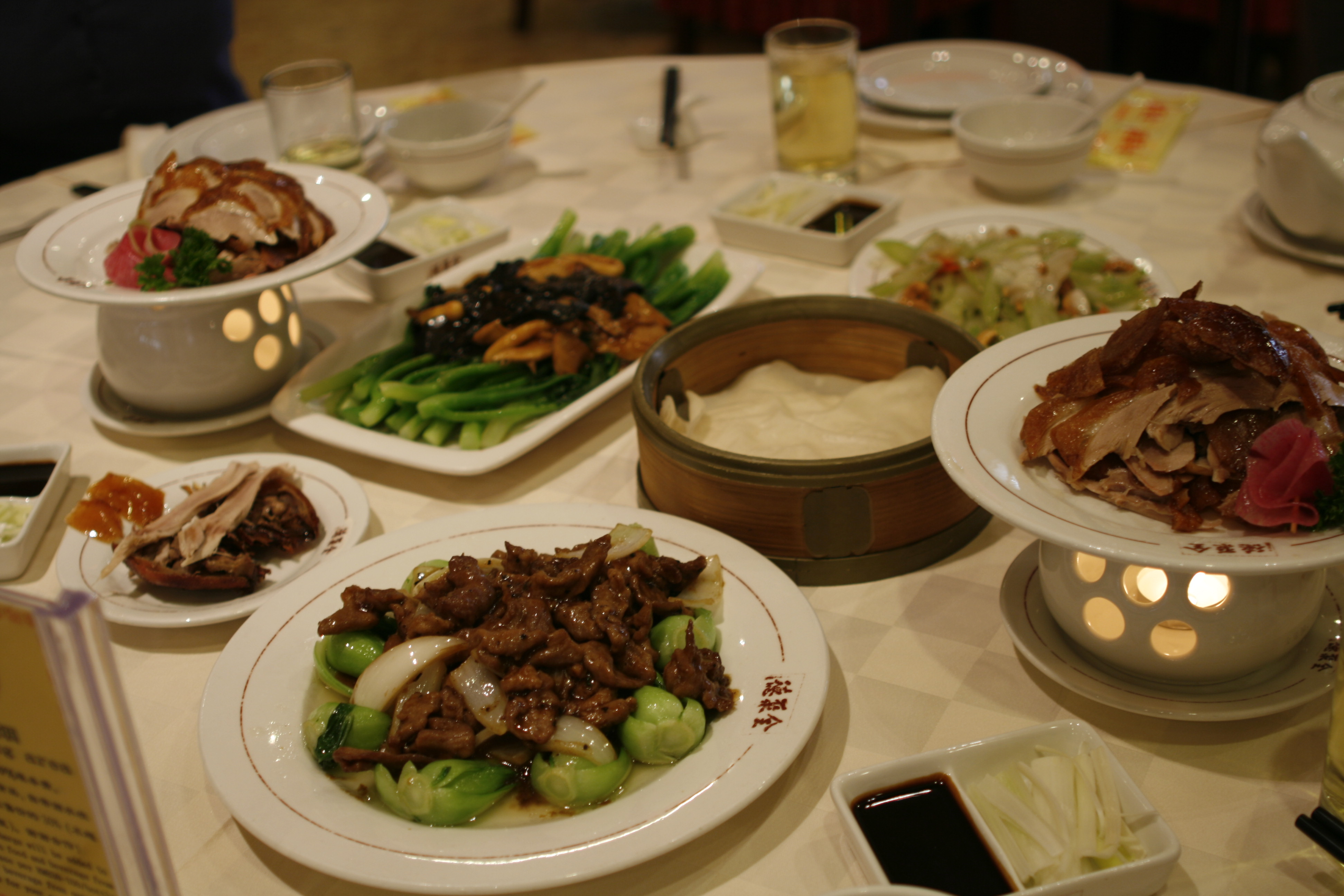 A full meal with Peking Roast Duck at Quanjude